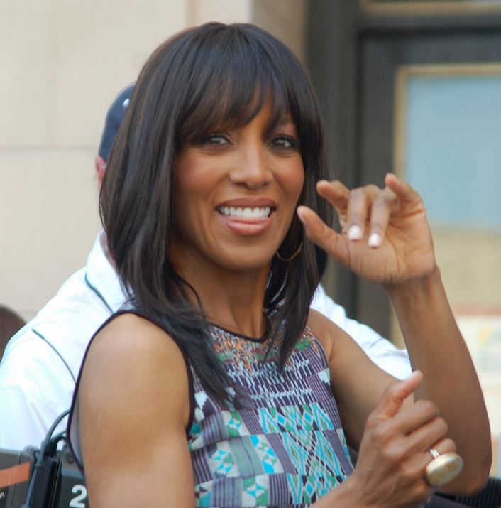 Shaun Robinson at a ceremony for Steve Harvey receive a star on the Hollywood Walk of Fame.